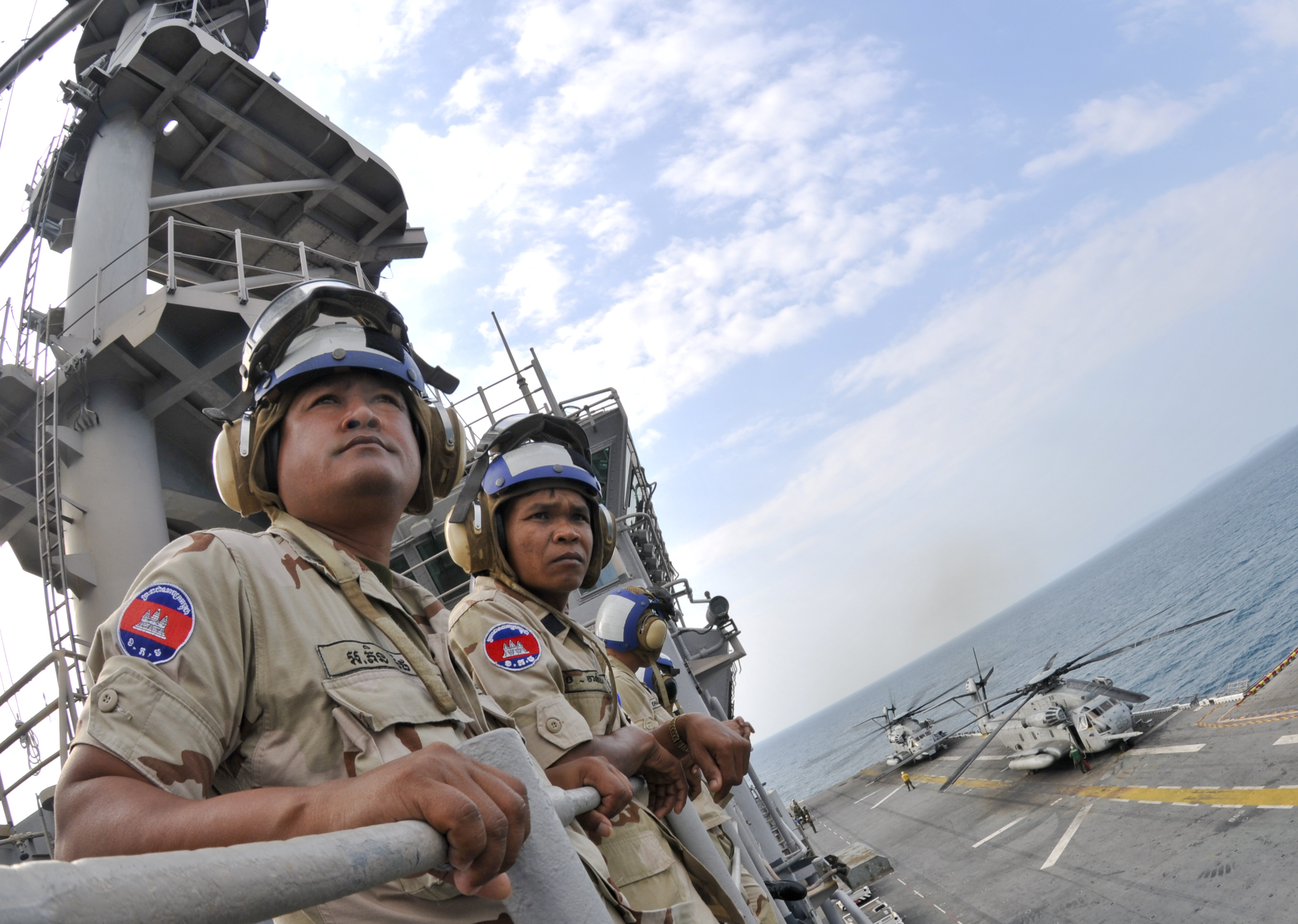 GULF OF THAILAND (Feb. 27, 2011) Royal Cambodian Navy officers observe flight quarters during a ship tour aboard the forward-deployed amphibious assault ship USS Essex (LHD 2). Essex is part of the Essex Amphibious Ready Group and is participating in Cambodian Maritime Exercise 2011. (U.S. Navy photo by Mass Communication Specialist 2nd Class Greg Johnson/Released)